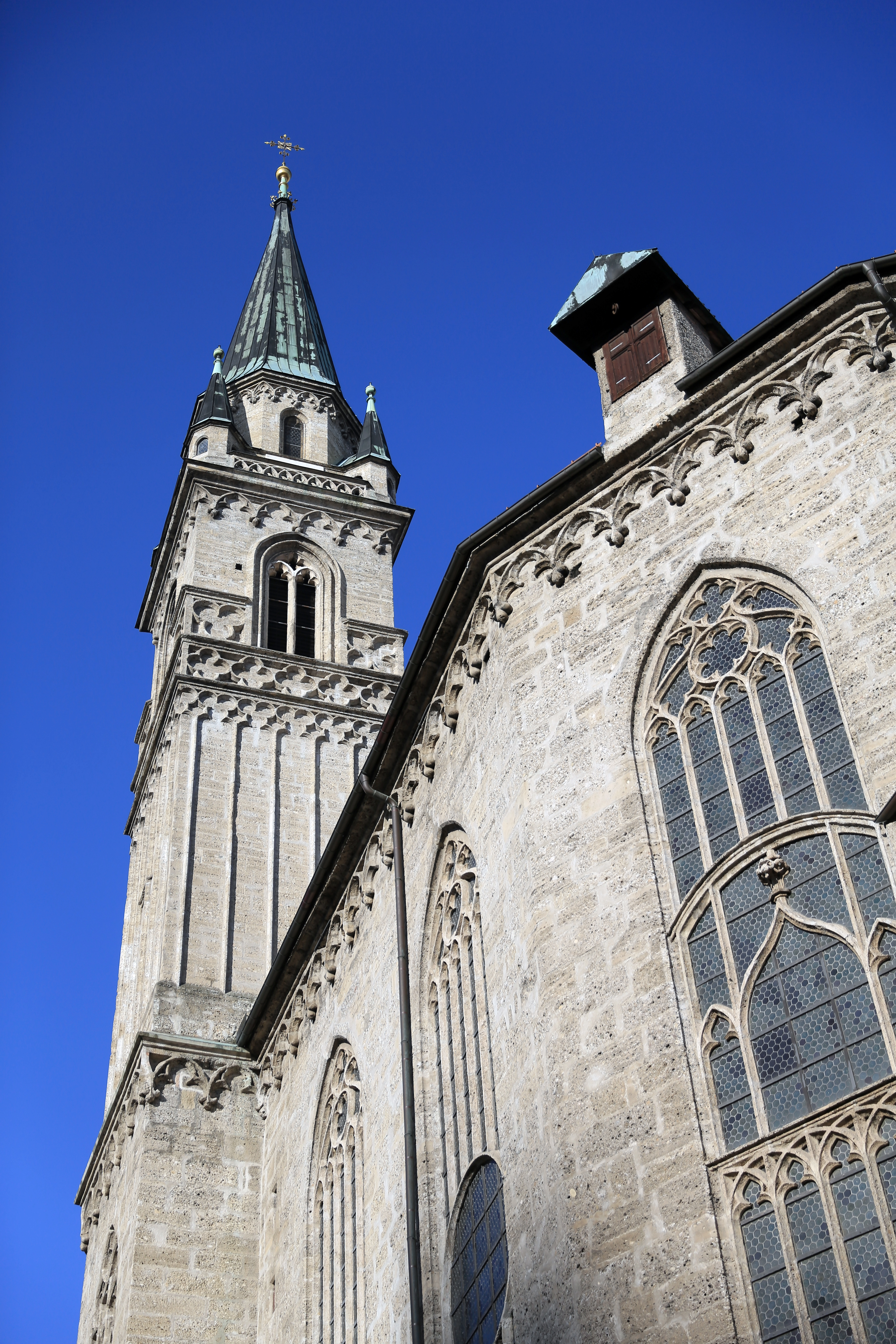 Franciscan Church in Salzburg, Austria.